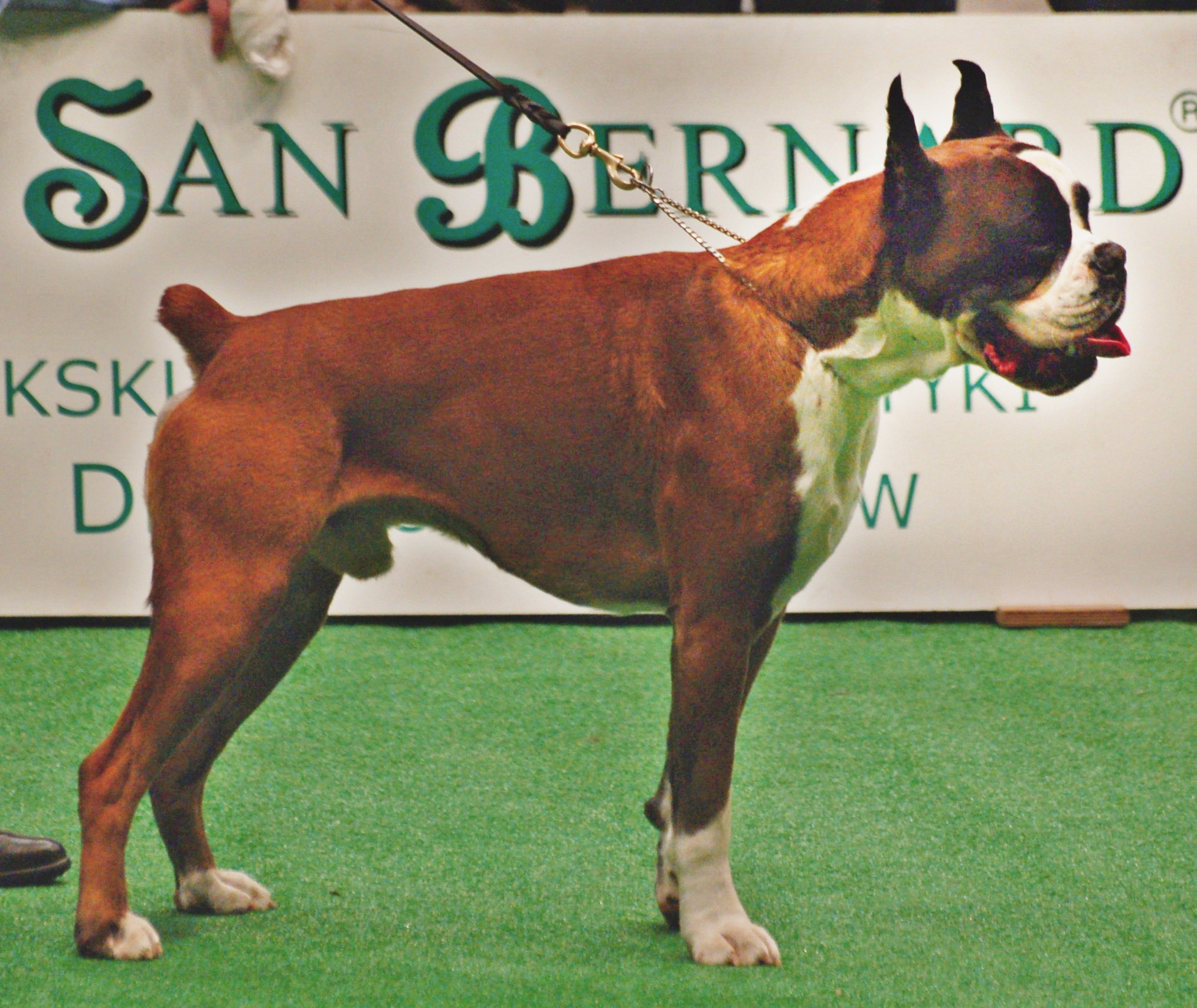 Boxer during dogs show in Katowice, Poland